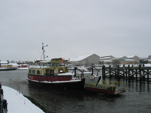 Renfrew Ferry, Yoker Swan, a passenger ferry crossing the River Clyde between Renfrew and Yoker.